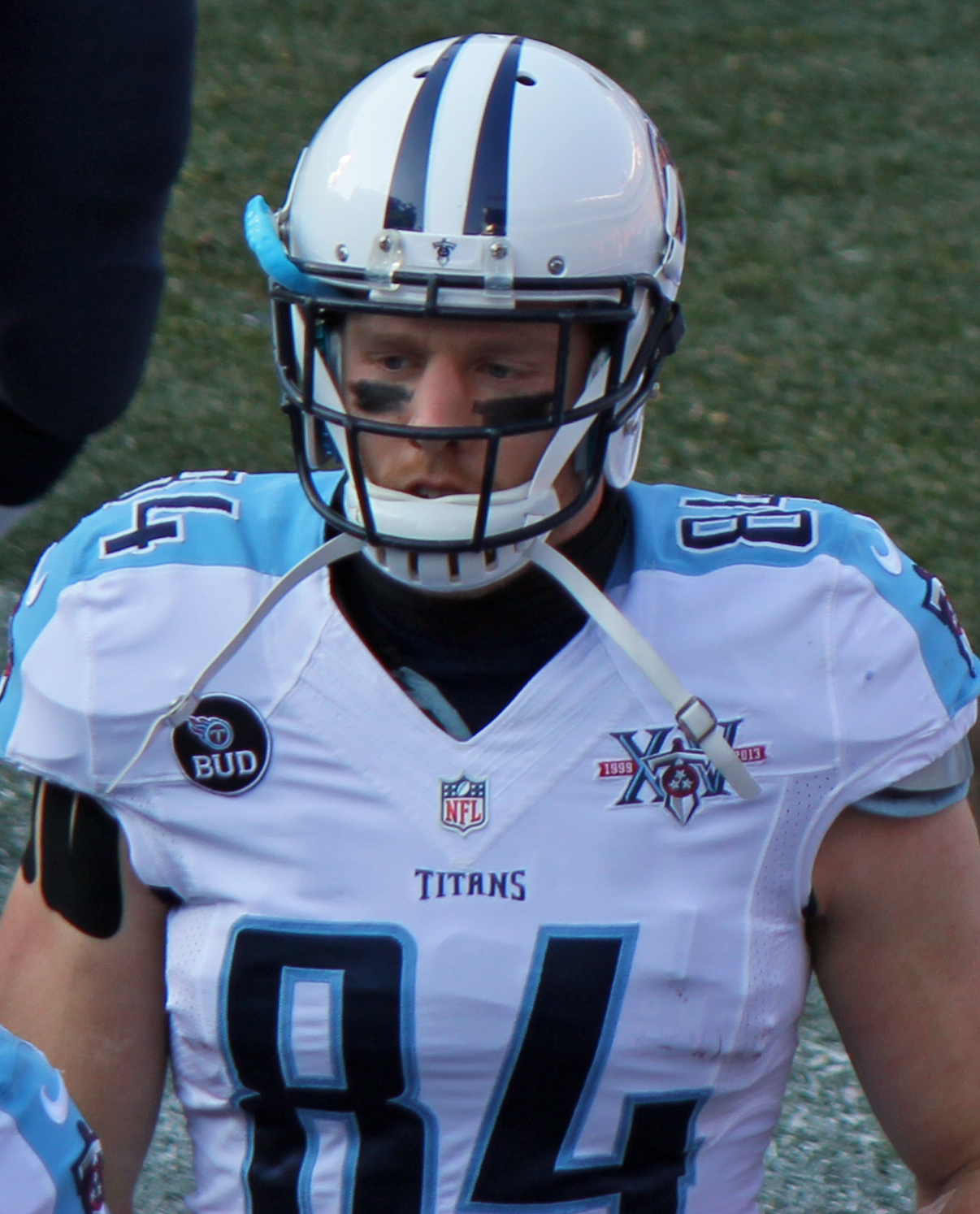 Taylor Thompson, a player on the National Football League.